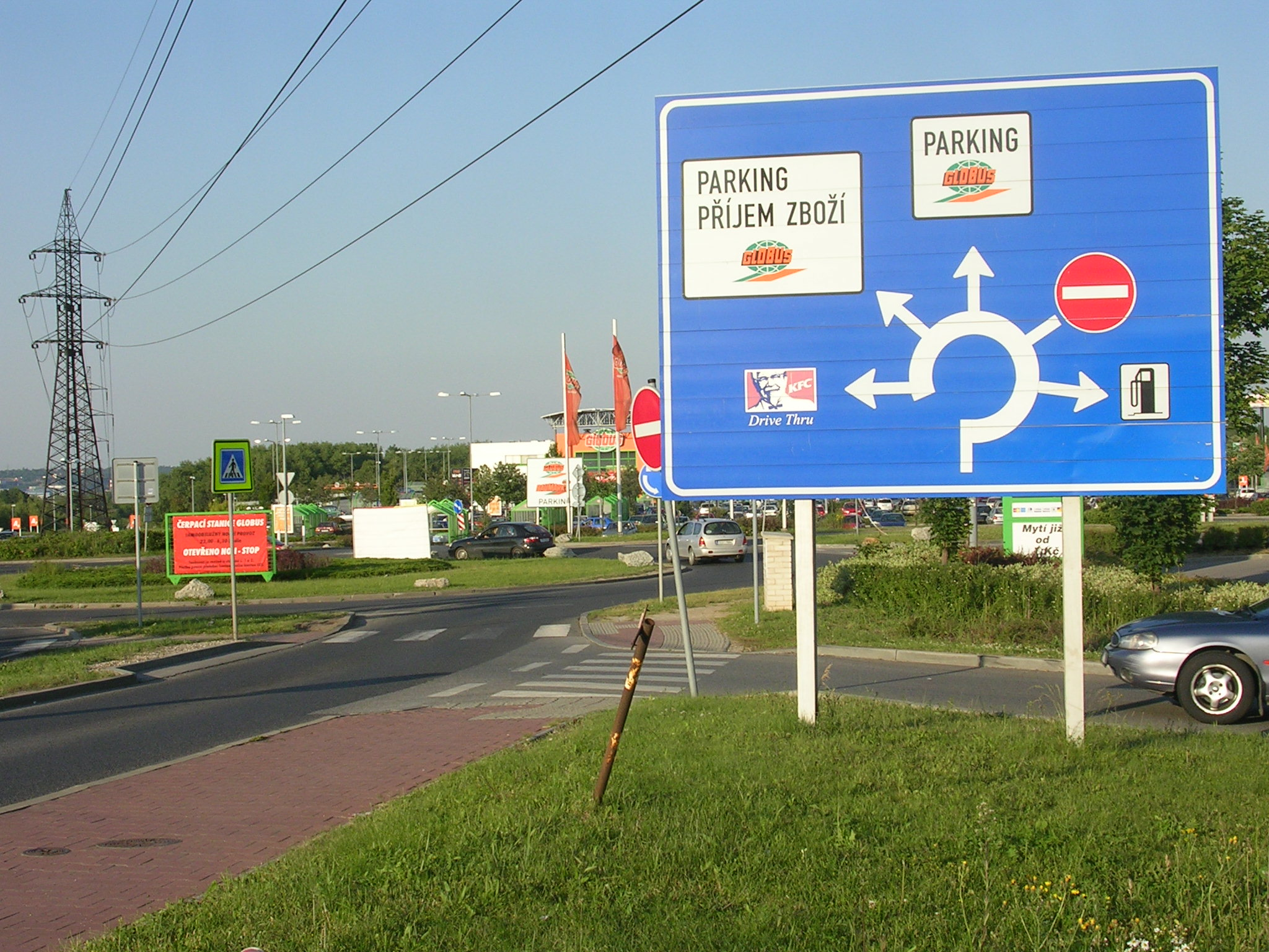 Třebonice, Prague, the Czech Republic. A roundabout near "Globus Zličín".